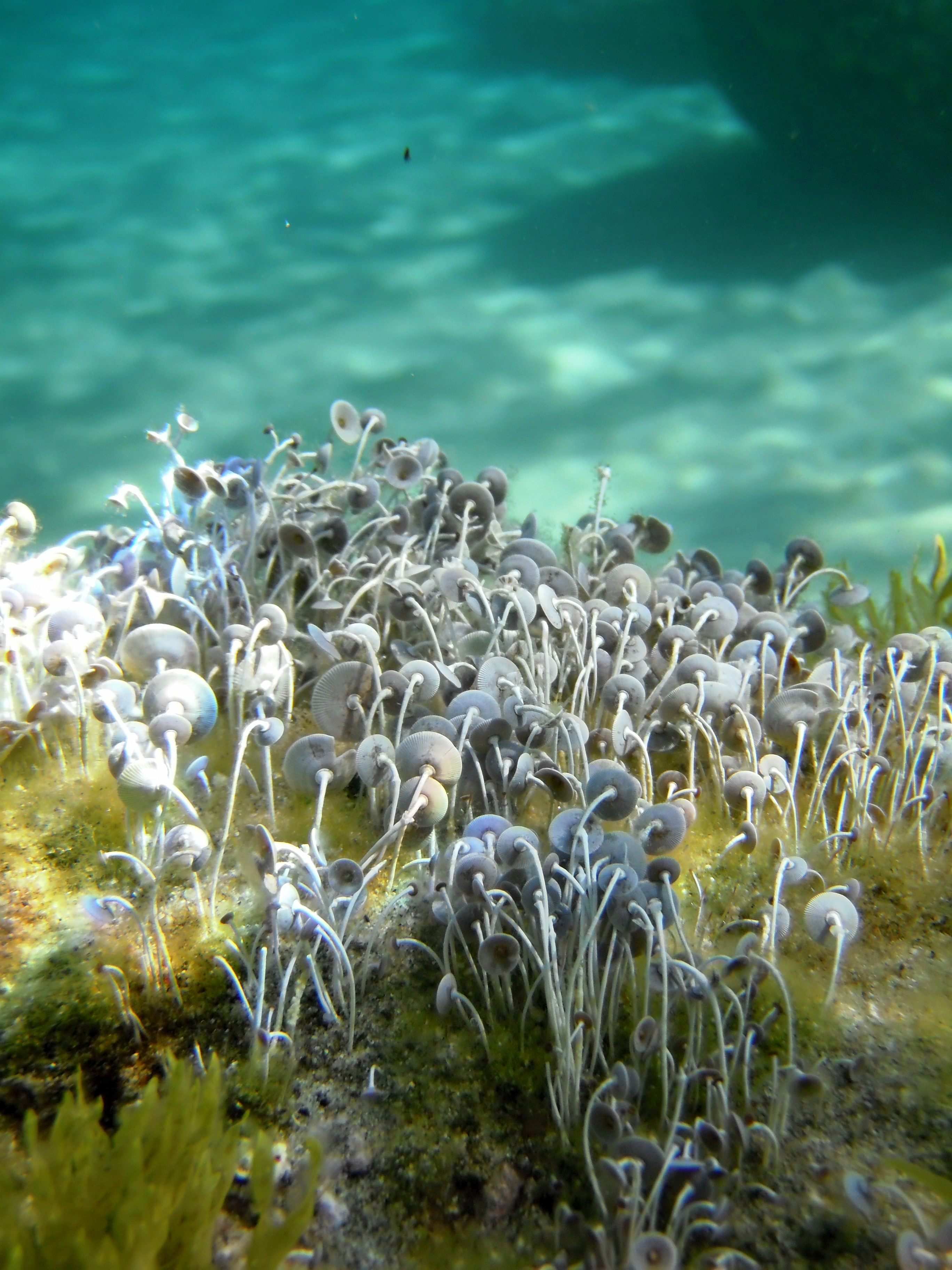 Acetabularia sp. Calla Cartoe, Sardinia, Italy